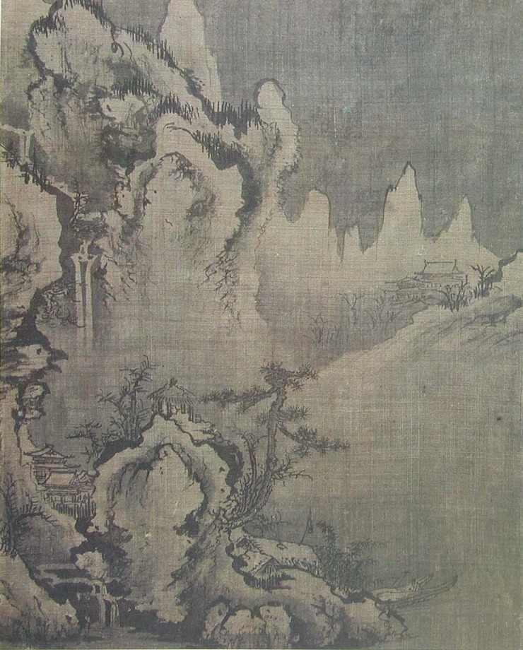 sasipalgyeongdo is a collection of eight paintings that depict the eight seasons of a mountain and water landscape